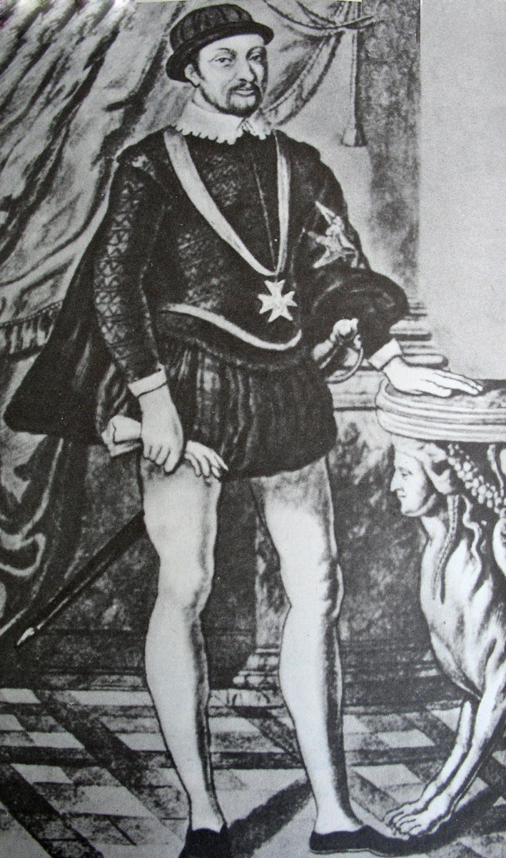 François du Plessis de Richelieu - the father of Cardinal Armand Jean du Plessis de Richelieu.